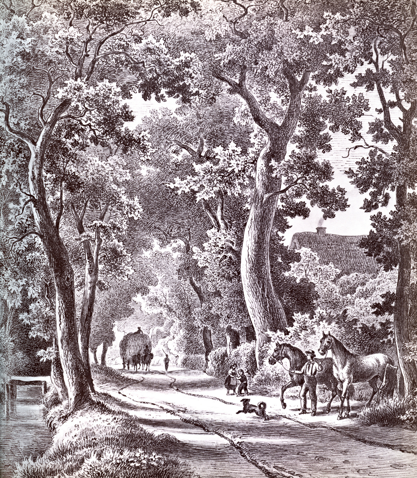 Lithography of the street Oberneulander Landstraße next to the Hollerfleet in Bremen, Germany, from the year 1850 by Johann Georg Walte (1811–1890).